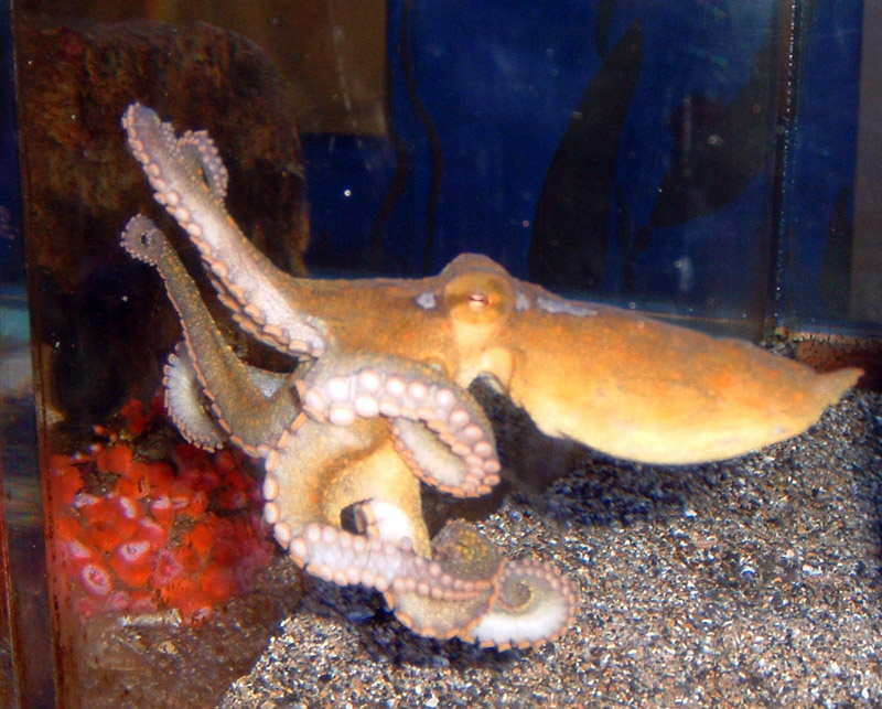 Baby California Two Spot Octopus Taken by Jeremy Selan Santa Monica Pier Aquarium Santa Monica, CA 12/3/06